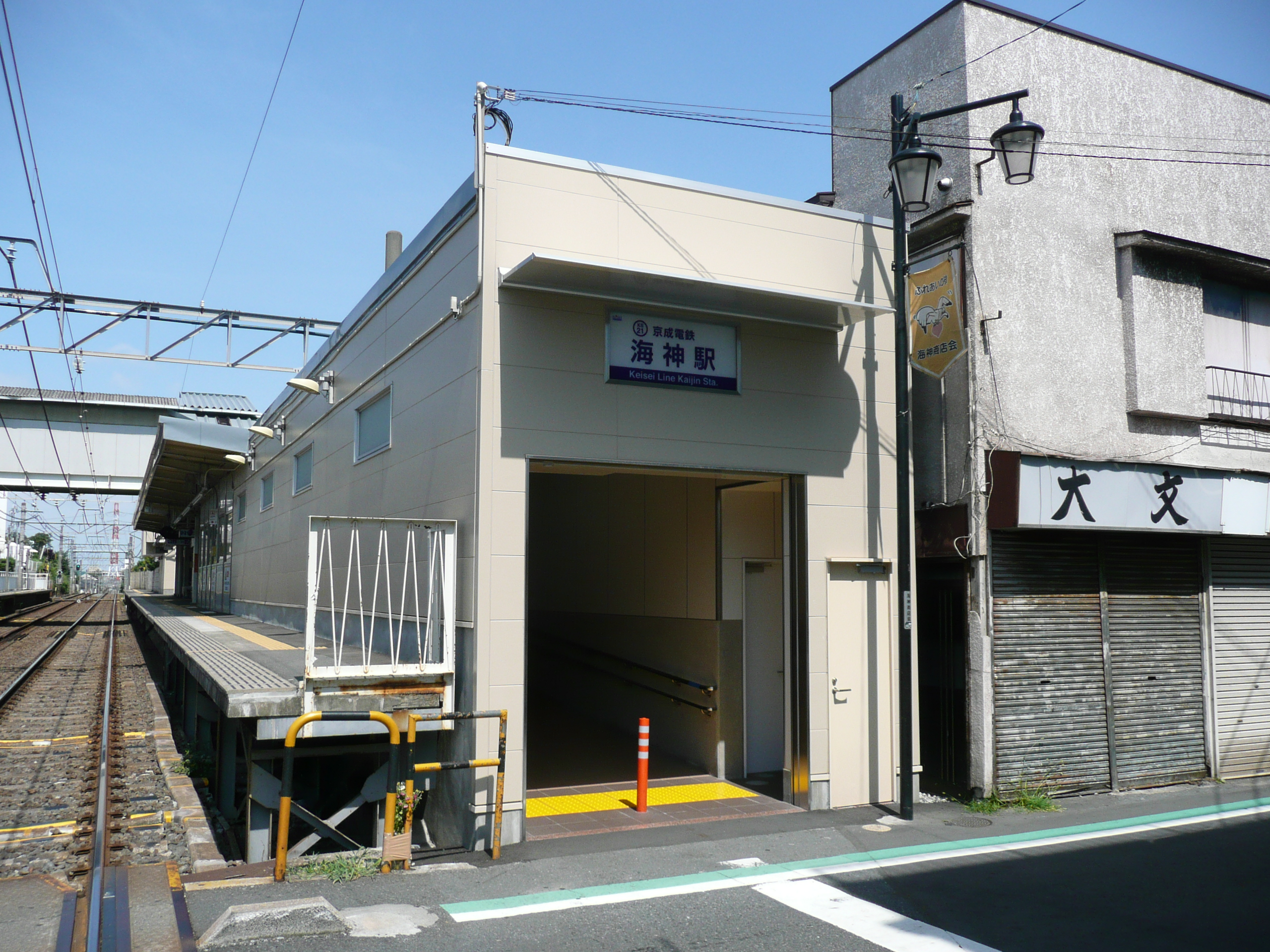 Kaijin Station